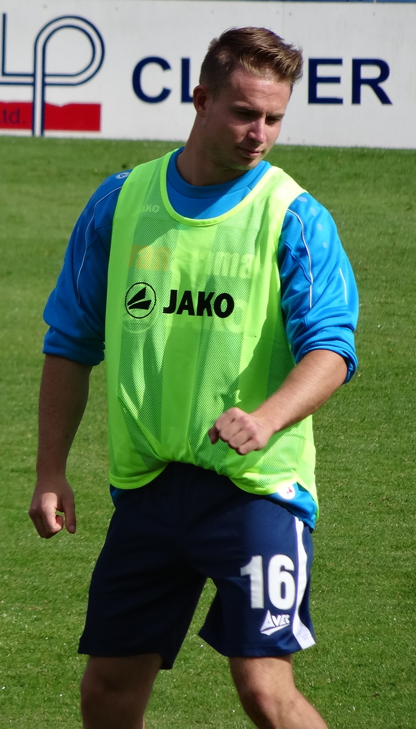 Connor Smith warming up for York City against AFC Telford United at Bootham Crescent, York on 5 August 2017